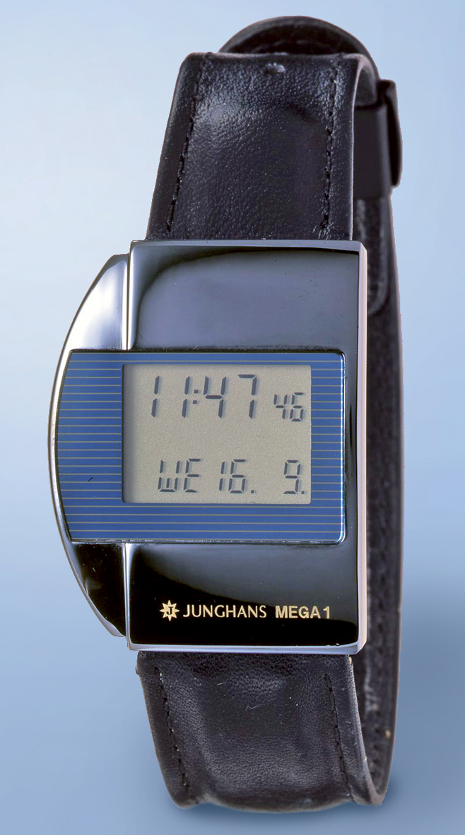 Junghans first radio-controlled wristwatch Mega1